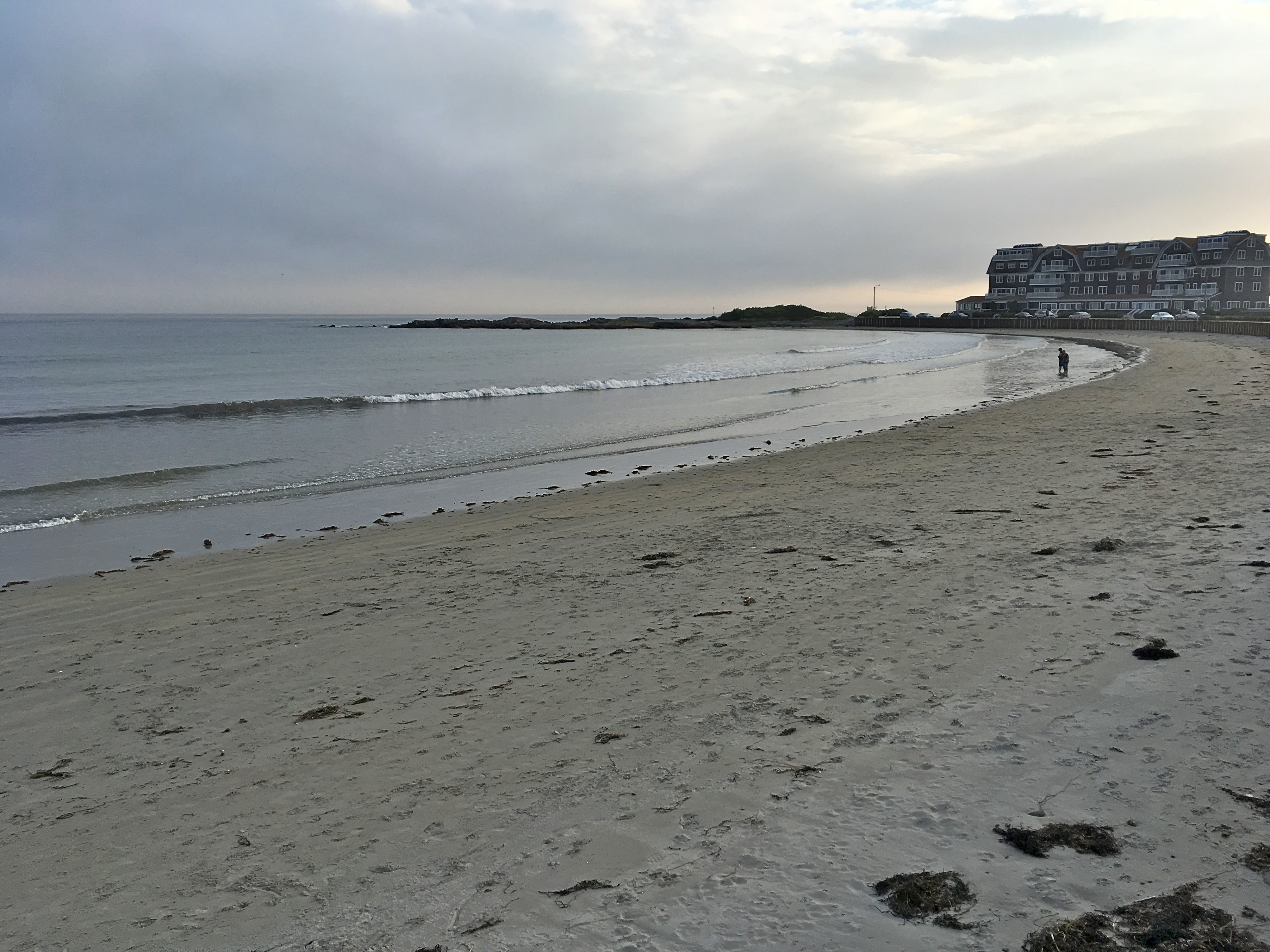 Gooch's Beach at Kennebunk in September